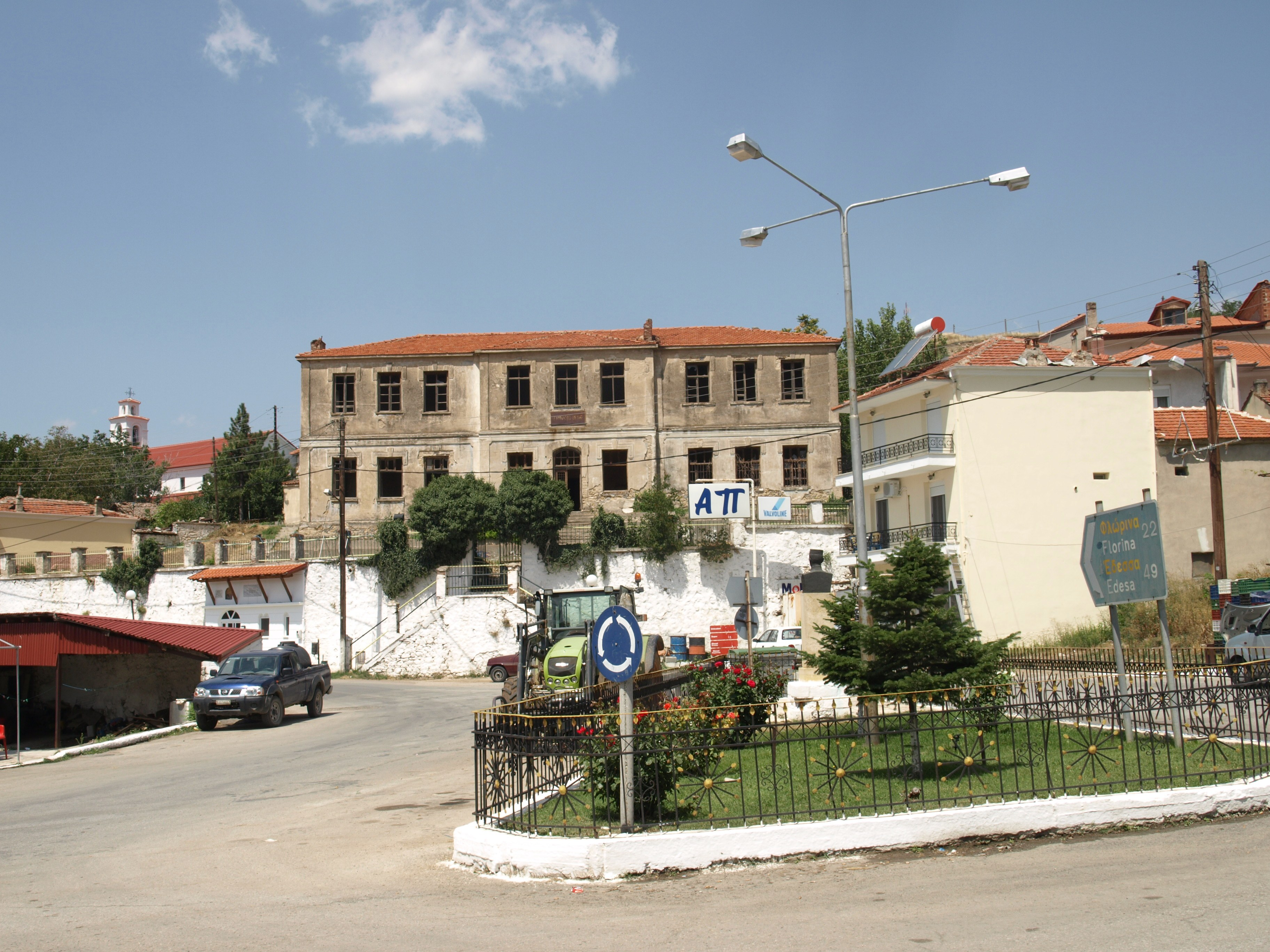 Old school in Vevi in the Florina prefecture in Greece